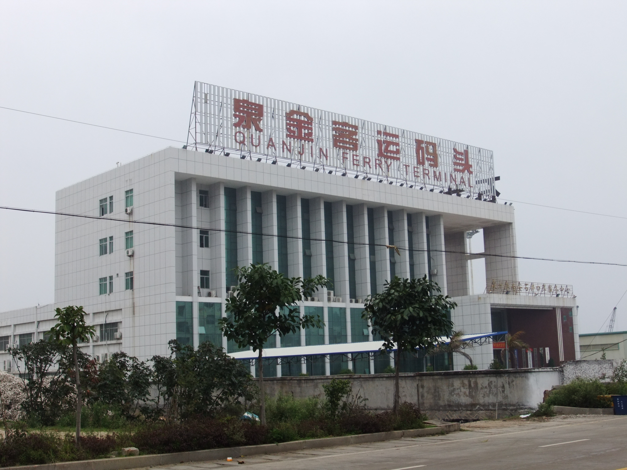 Shijing Town, Nan'an County, Quanzhou Prefecture, Fujian. The Quanjin (Quanzhou-Kinmen) Ferry Terminal is located here, as well as other port facilities.